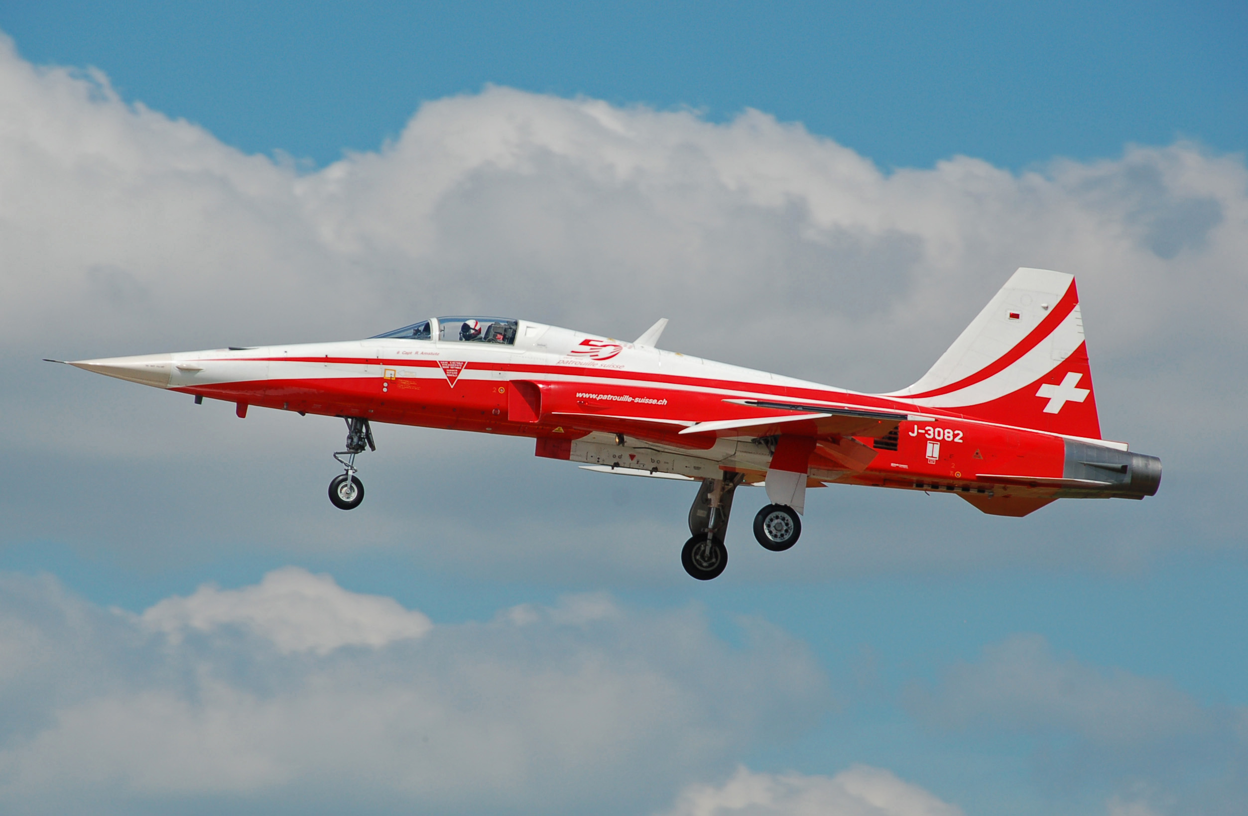 Northrop F-5E Tiger II (code J-3082) of the Patrouille Suisse aerobatics team arrives for the 2014 Royal International Air Tattoo, Fairford, England. The '50' marking commemorates the team's 50th anniversary (1964-2014).